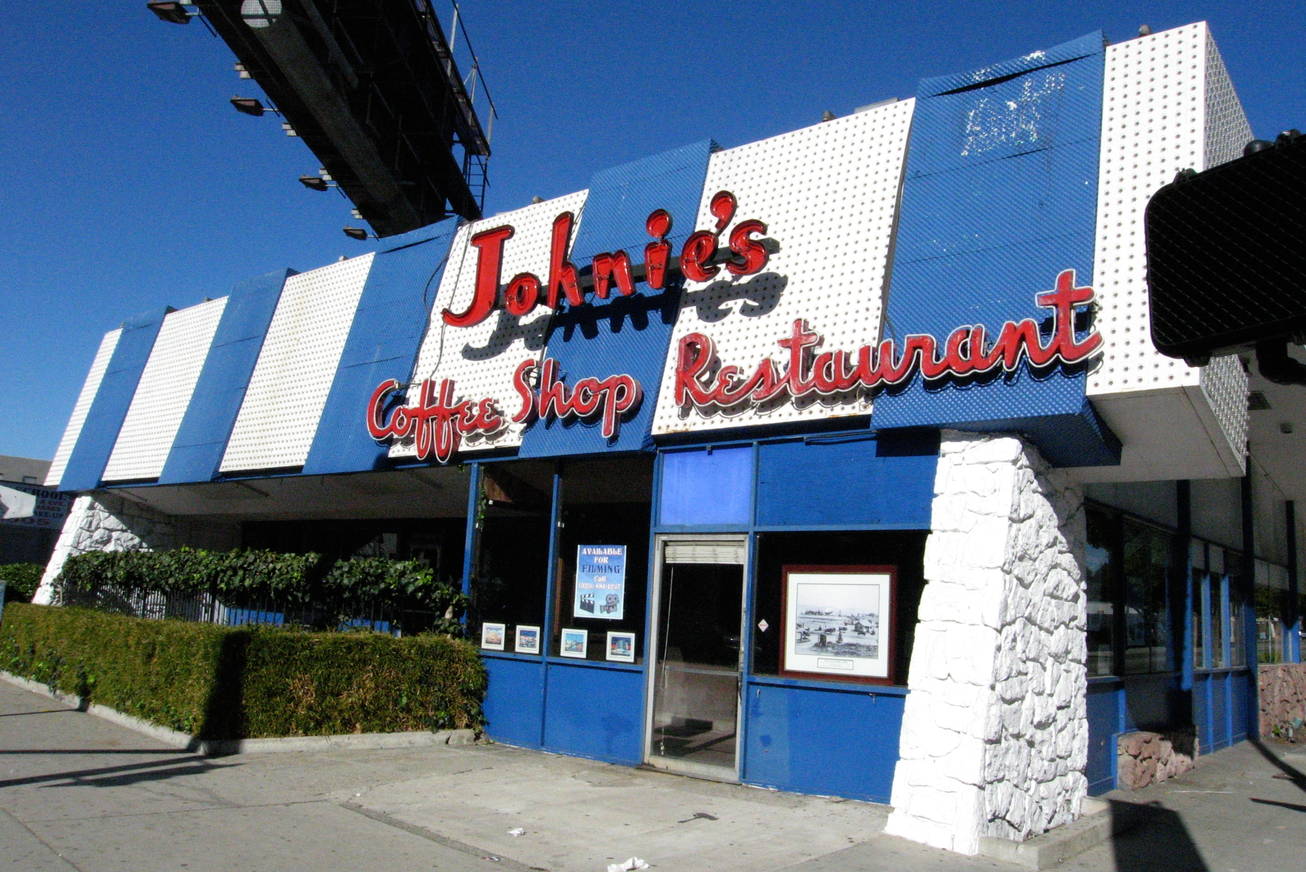 Johnie's Coffee Shop Restaurant on Miracle Mile in Los Angeles, famous for being used as a location for many movies.